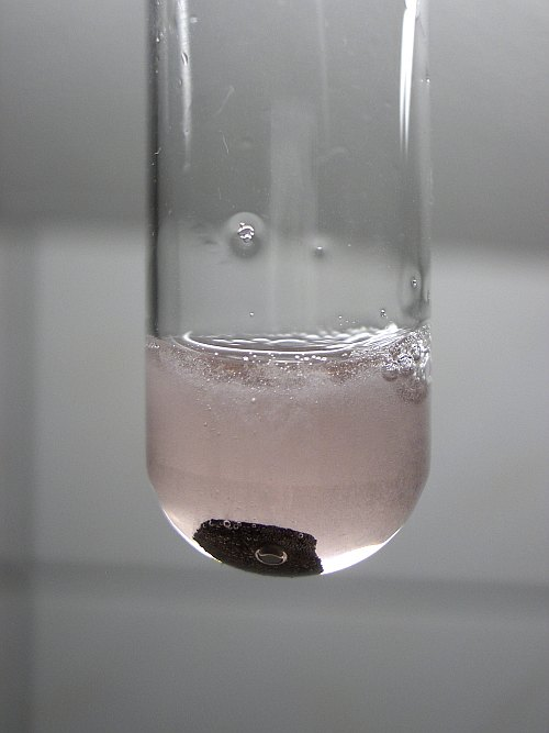 A very concentrated solution of manganese(II) chloride with a piece of manganese metal